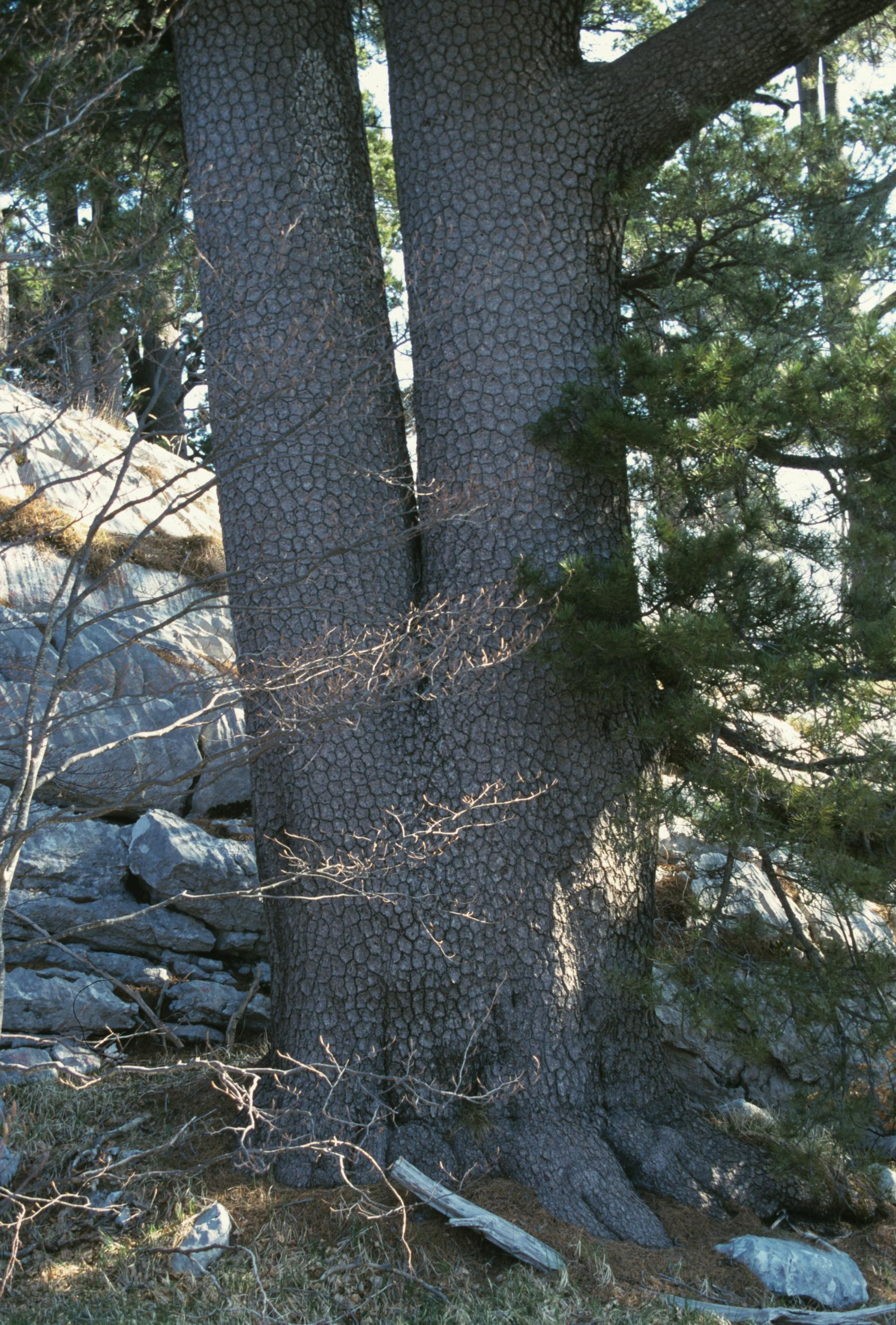 Bosnian pine, Orjen. April 1998 at 1450 m. Copyright (c) 1998 Pavle Cikovac (User:Orjen), Left under GFDL-self